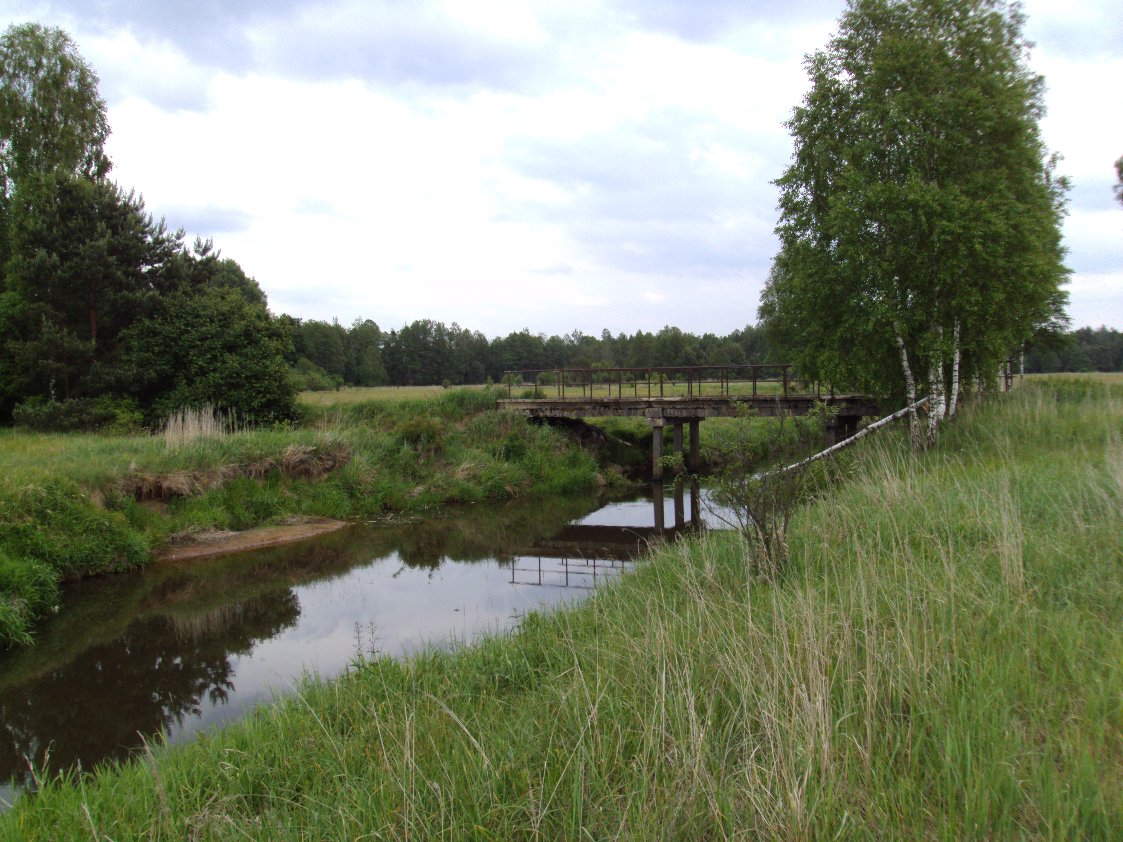 Kamińsko. Most na Liswarcie